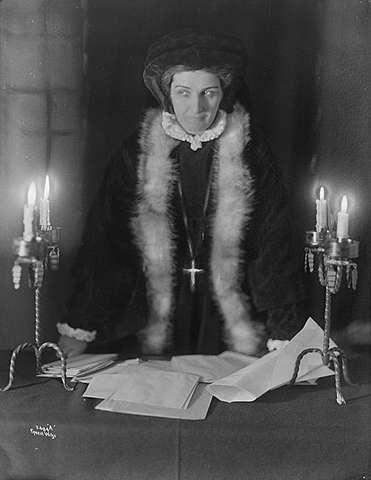 Norwegian actress Agnes Mowinckel in the part of Lady Inger of Oestraat.